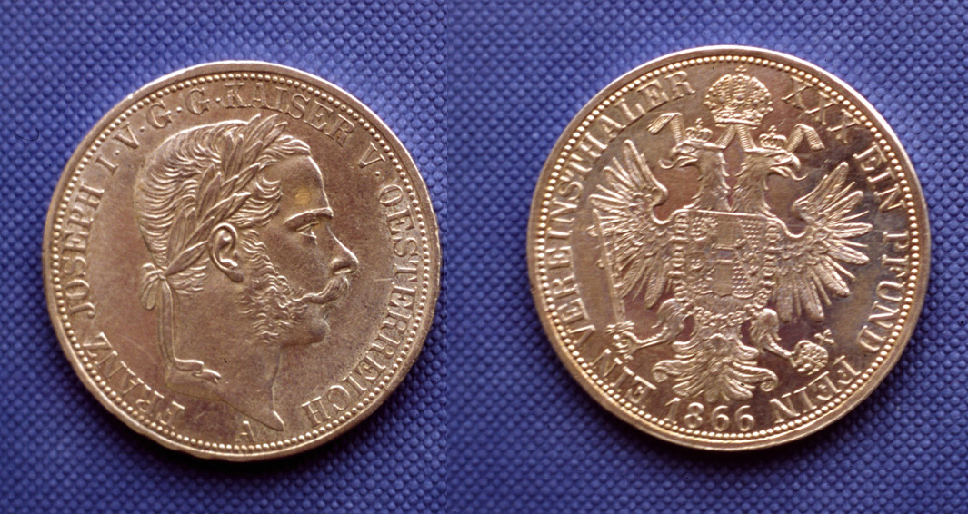 Vereinsthaler Austria Franz Joseph II